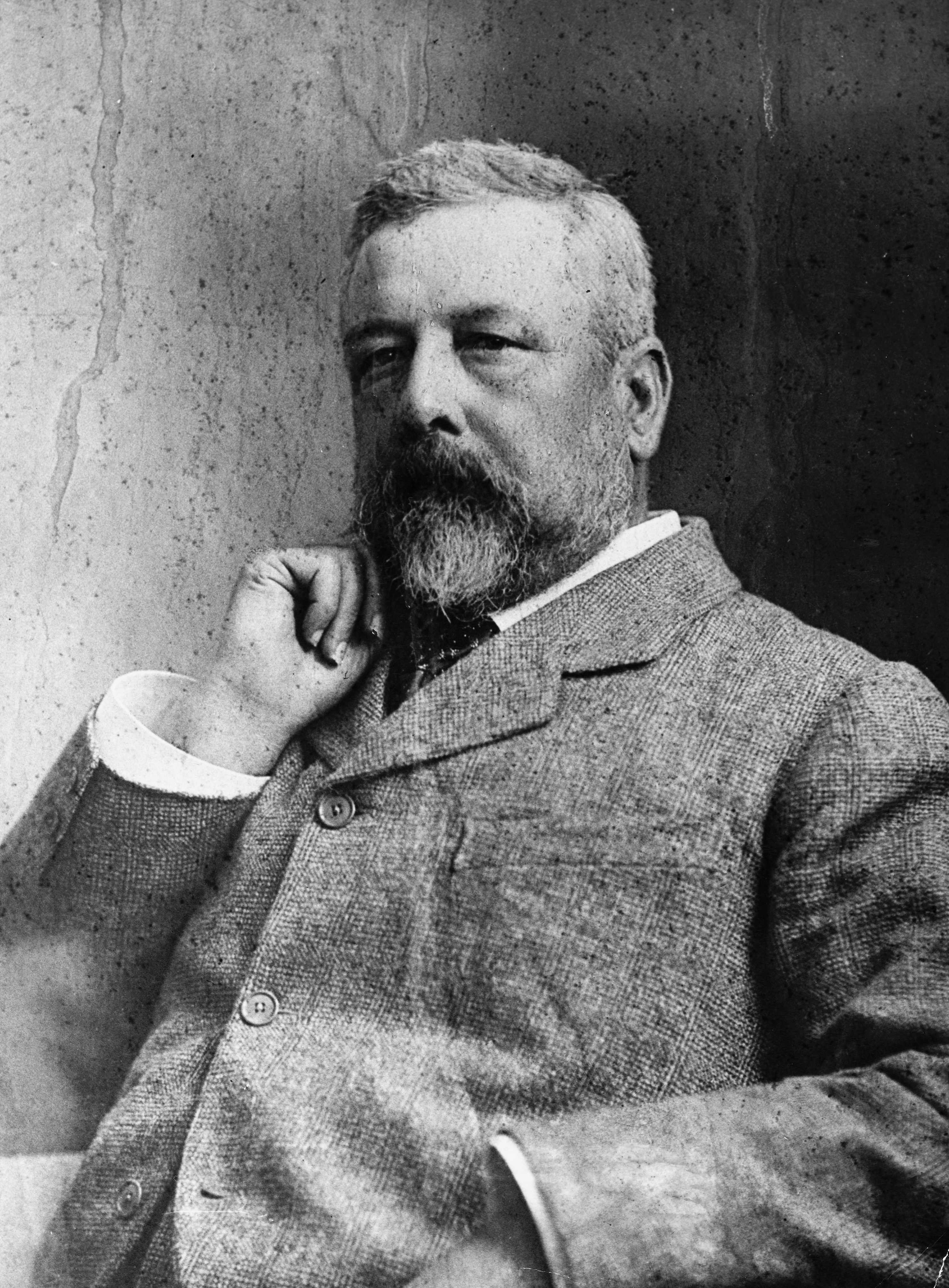 Head and shoulders portrait of George Gatonby Stead, circa 1901. Photographer unidentified.